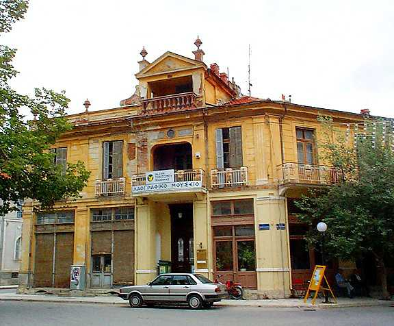 Outside view of the Museum, image from the Folklore Museum of the Culture Club, Florina, West Macedonia, Greece